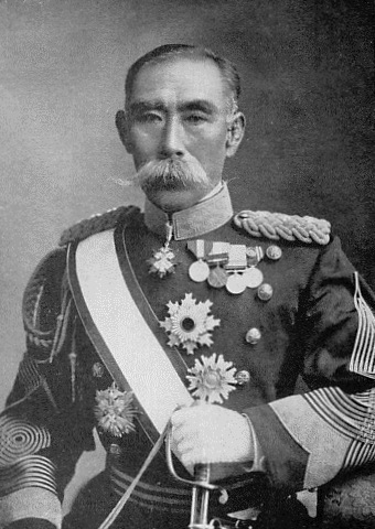 Hisanao Oshima